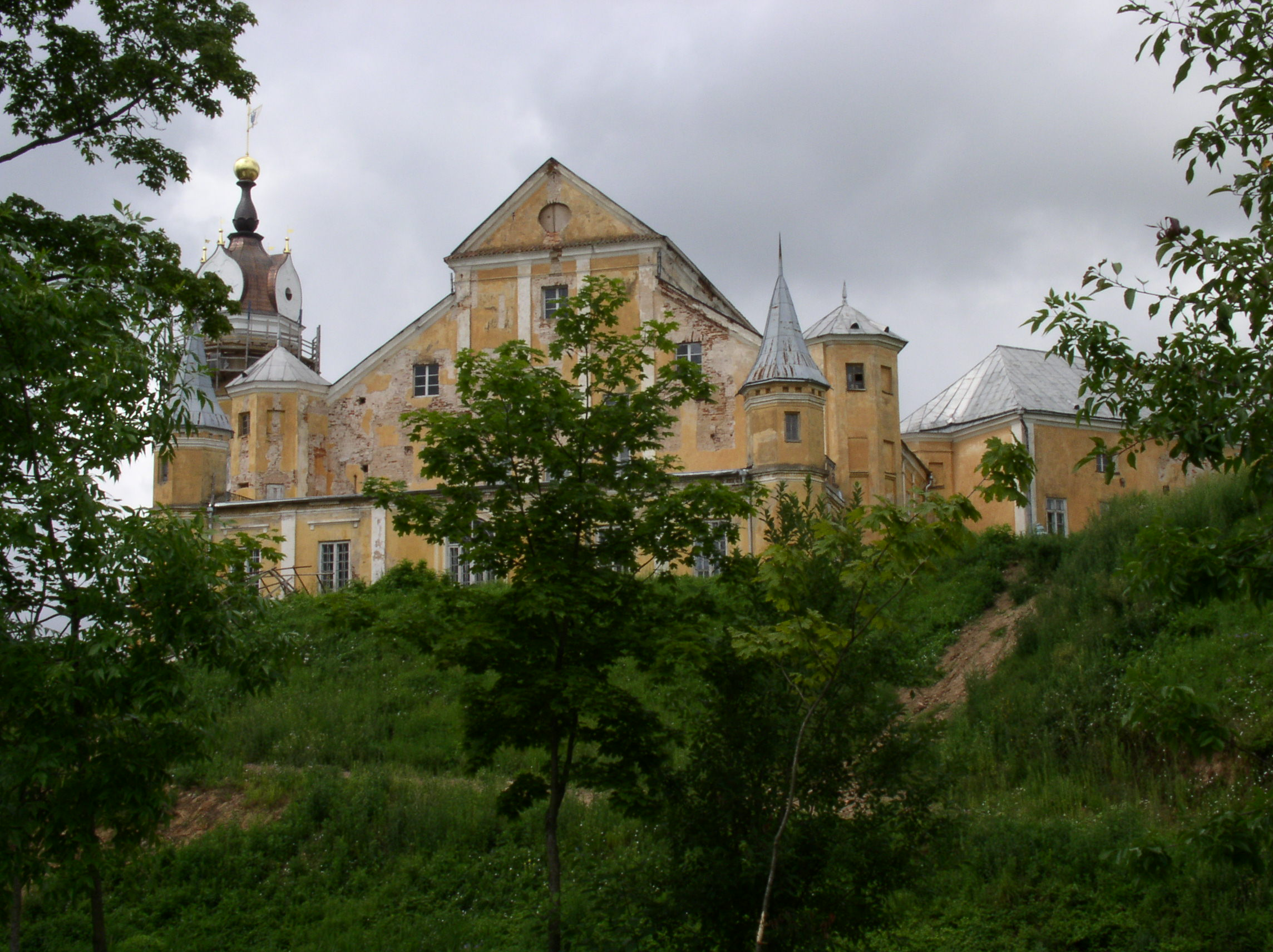 Radziwill family castle, Niasvizh, Belarus.